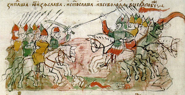 medieval picture of Radzivill Chronicle depicting